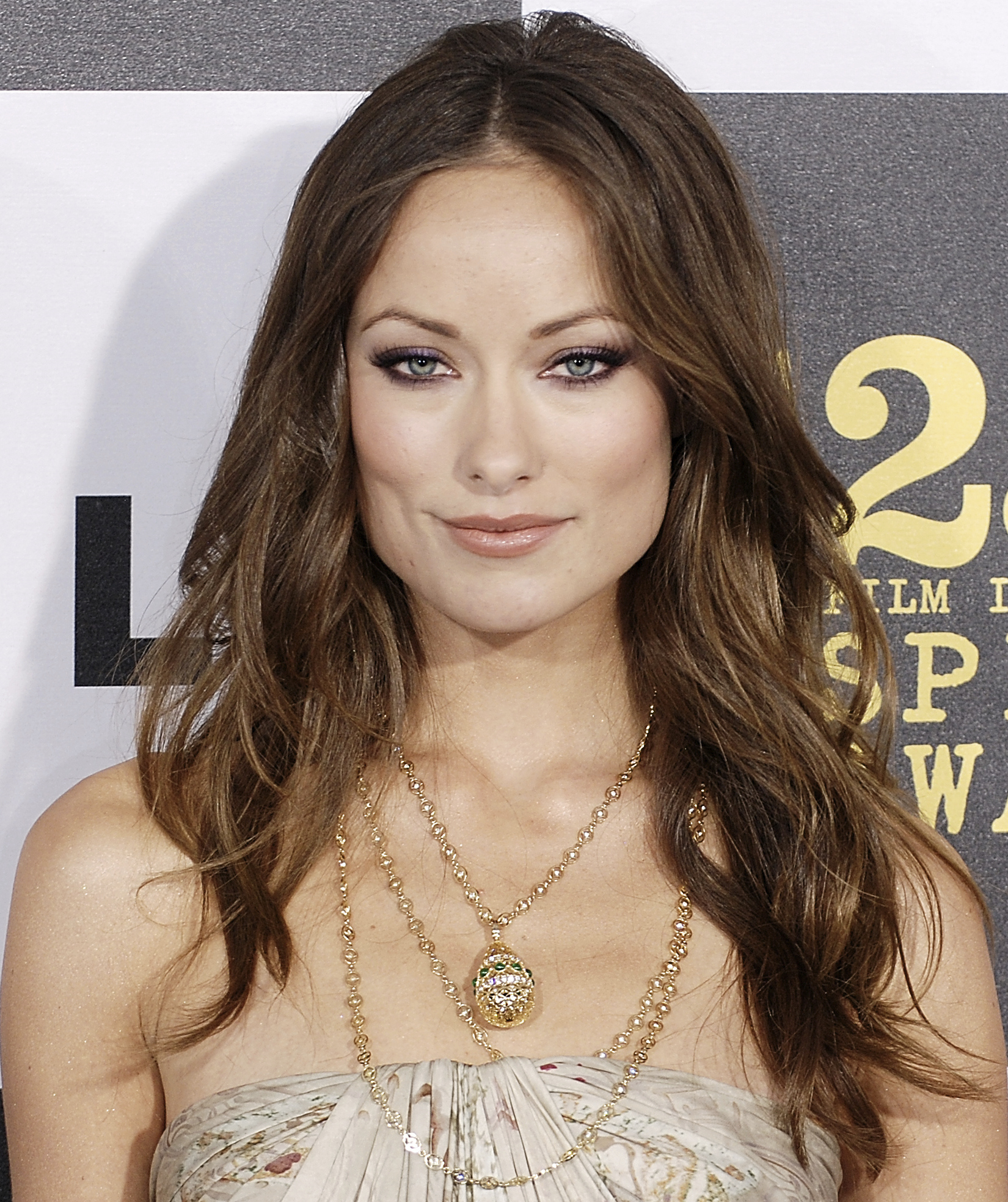 Olivia Wilde at the 2010 Independent Spirit Awards.